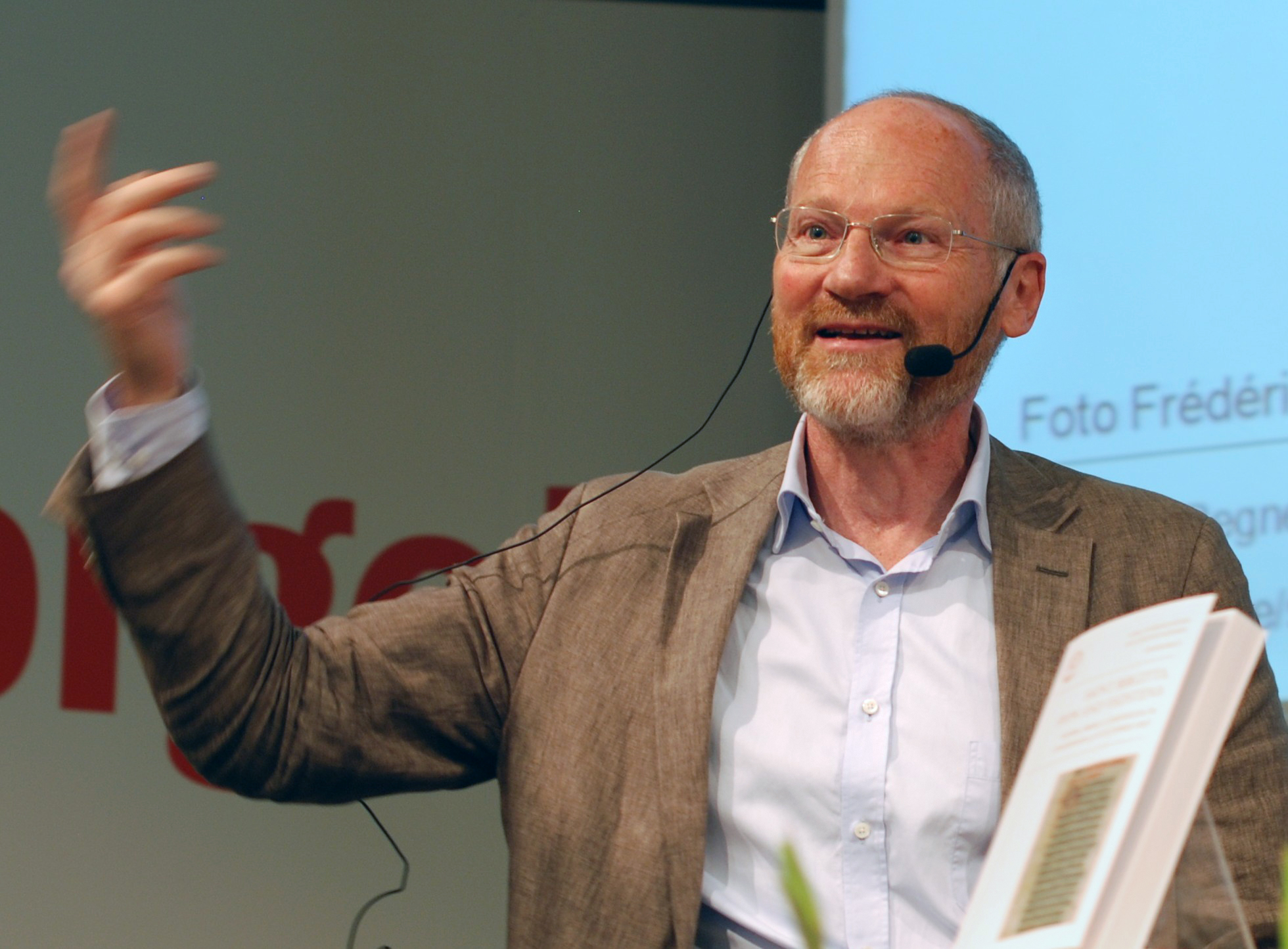 Swedish historian Janken Myrdal at the Göteborg Book Fair 2010